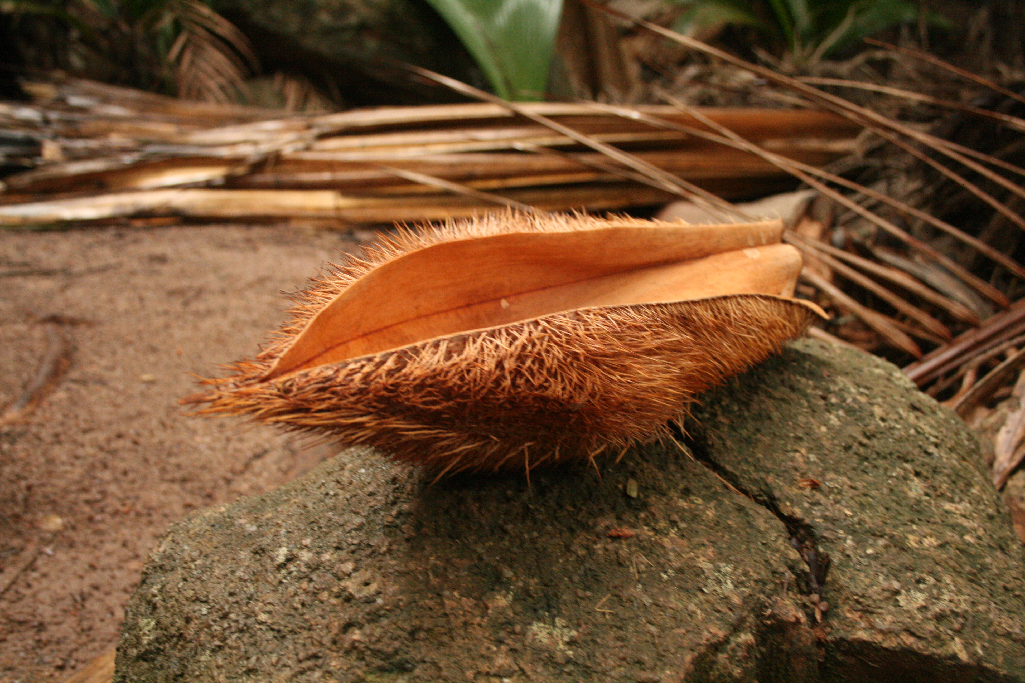 Deckenia nobilis on the Seychelles islands, Mahe, Vallee de Mai